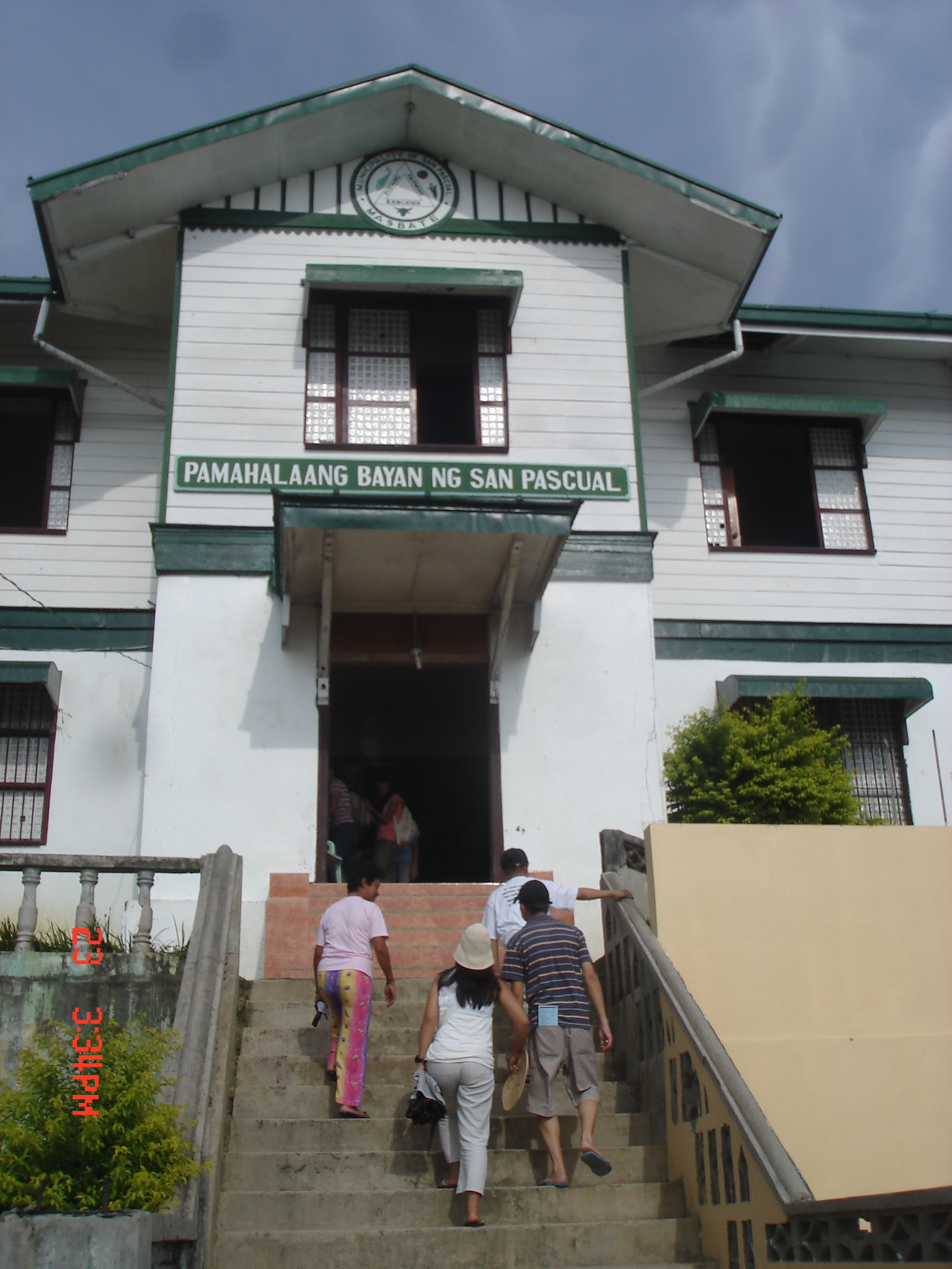 Municipal hall of San Pascual, Masbate, Philippines